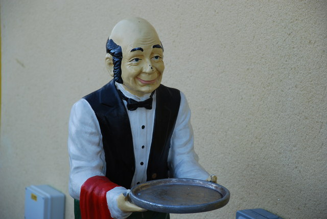 Difyrion Pwllheli Amusements. A "waiter" outside Caffi Sol at 670248